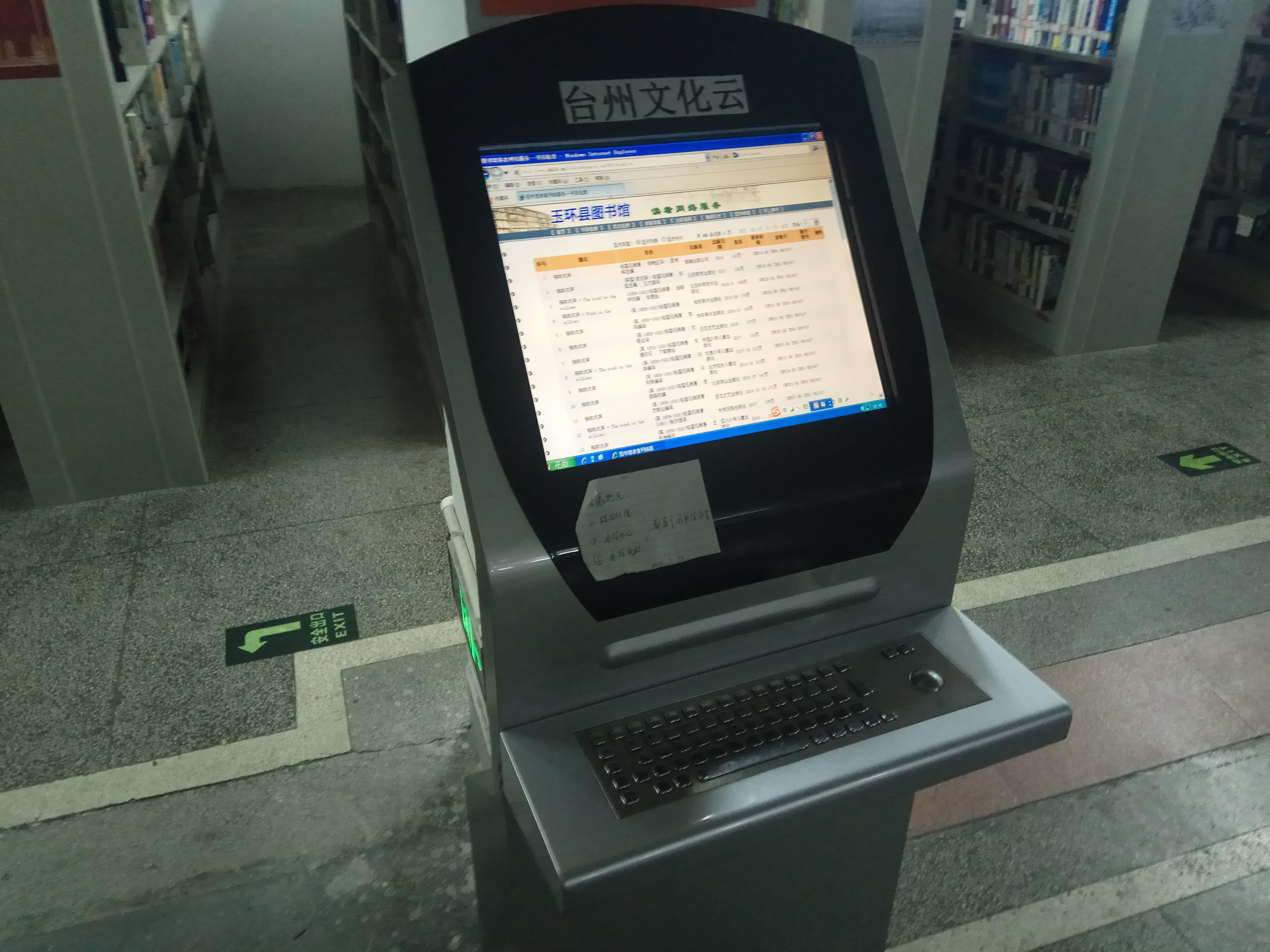 Yuhuan Library, Yuhuan City, Zhejiang, China-6